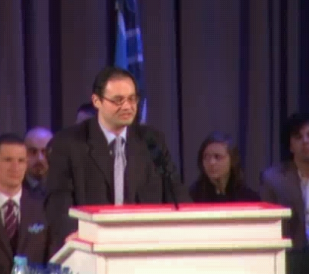 Adam Wielomski at the Congerss of Polish Right-Wing Assotiations 16.04.2011